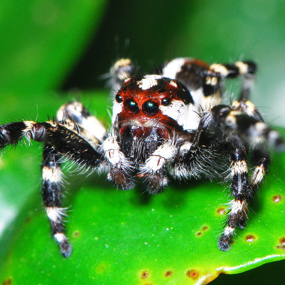 Adult male Wedoquella apnnea jumping spider in Chaco Province, Argentina